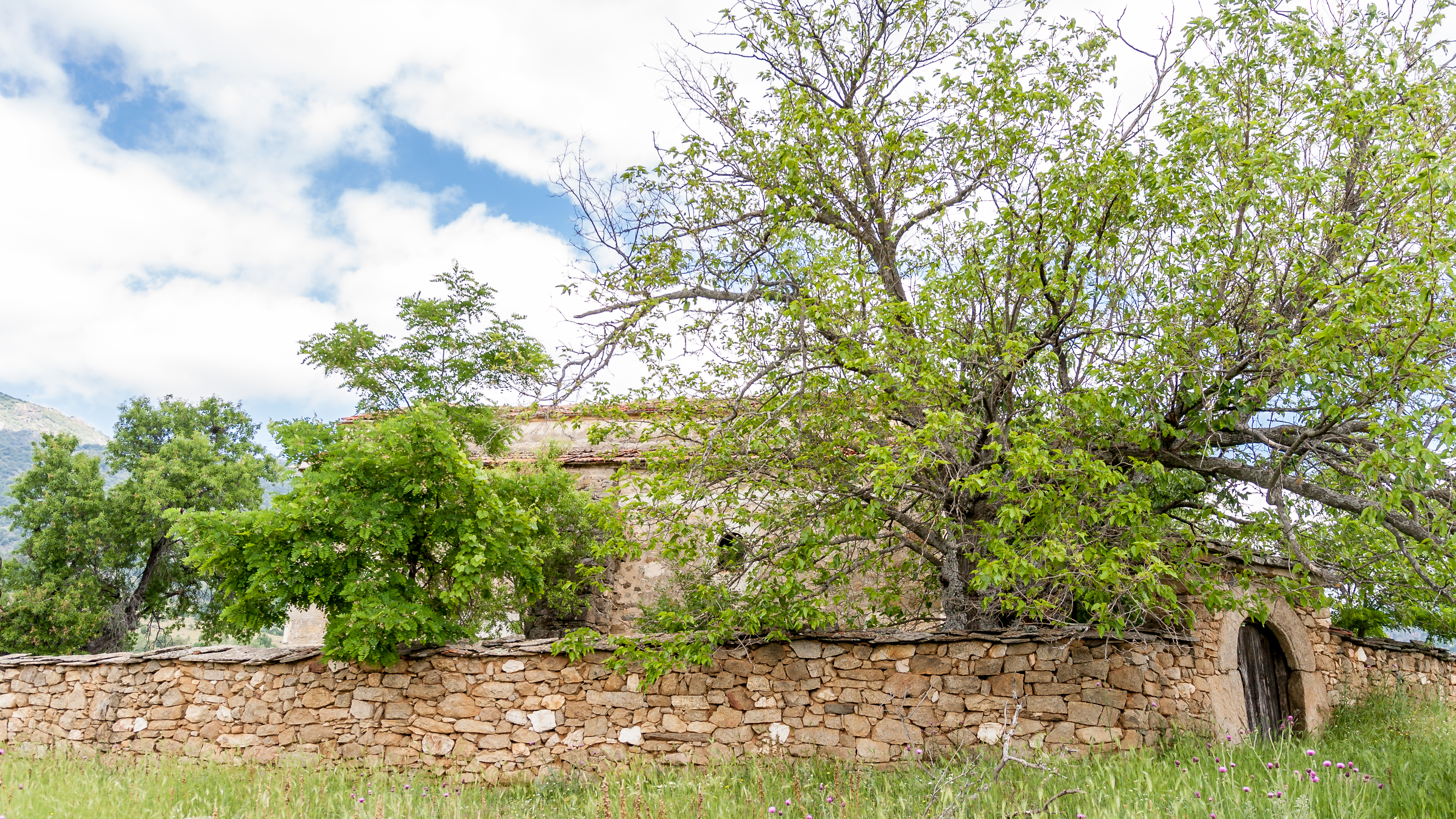 View of the main church in the village Kalen